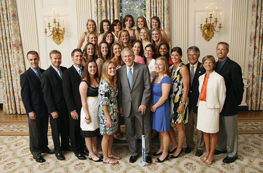 The University of North Carolina Tar Heels women's field hockey team are honored at the White House by President of the United States George W. Bush for the side's winning the 2007 National Collegiate Athletic Asssociation championship.